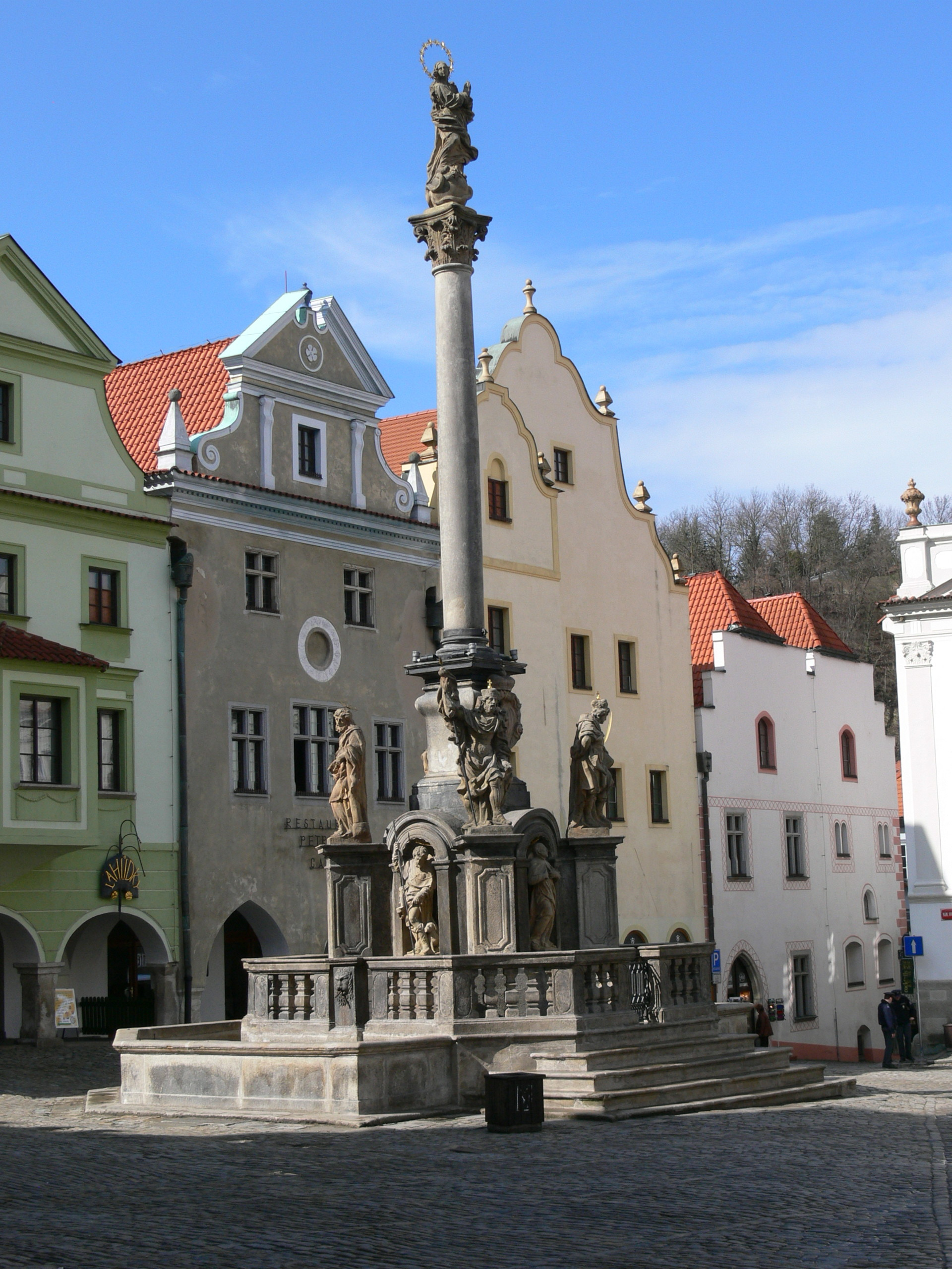 Český Krumlov. Maria column at the central square.